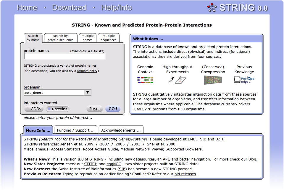 STRING screen shot